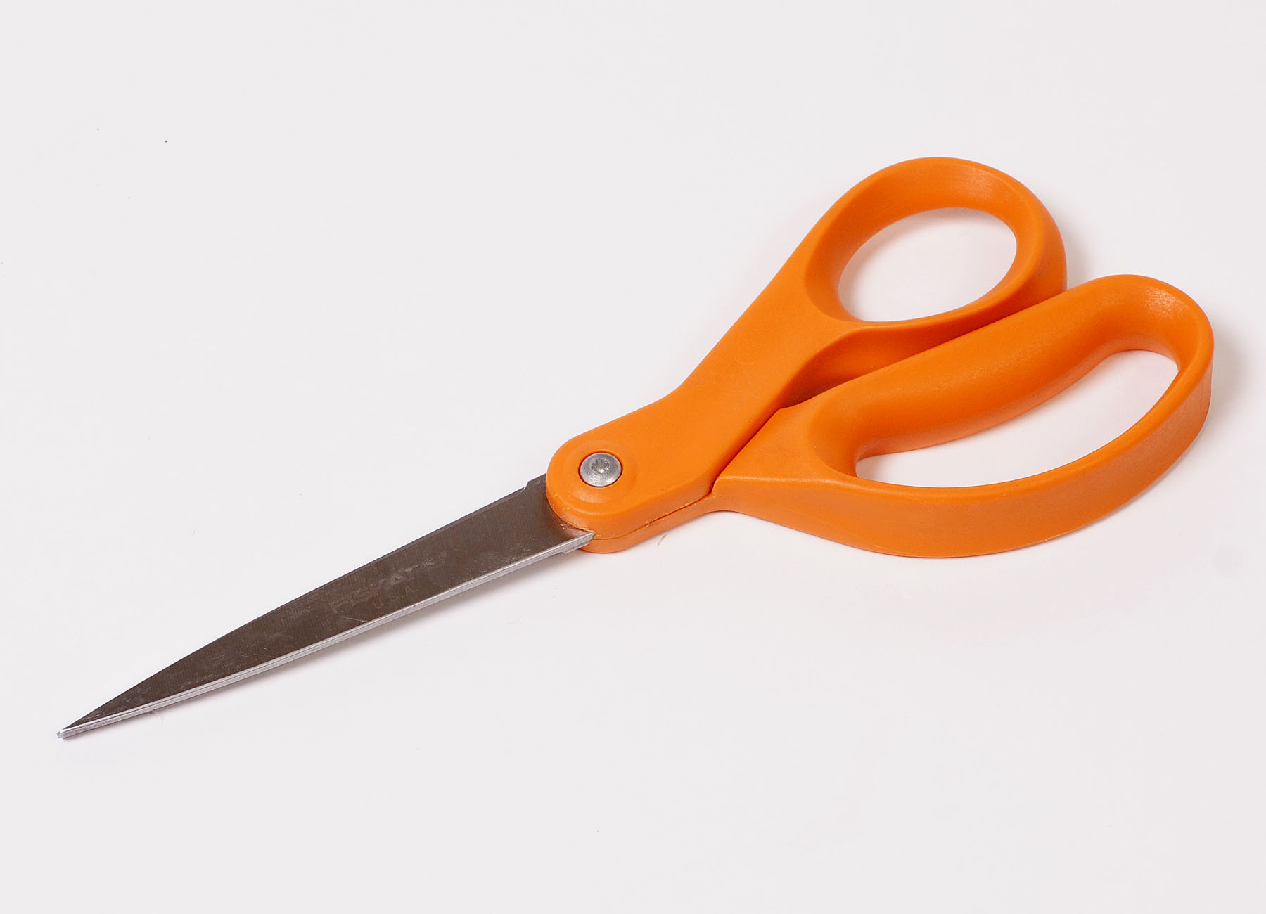 A pair of large Fiskars scissors, molded for right hands.